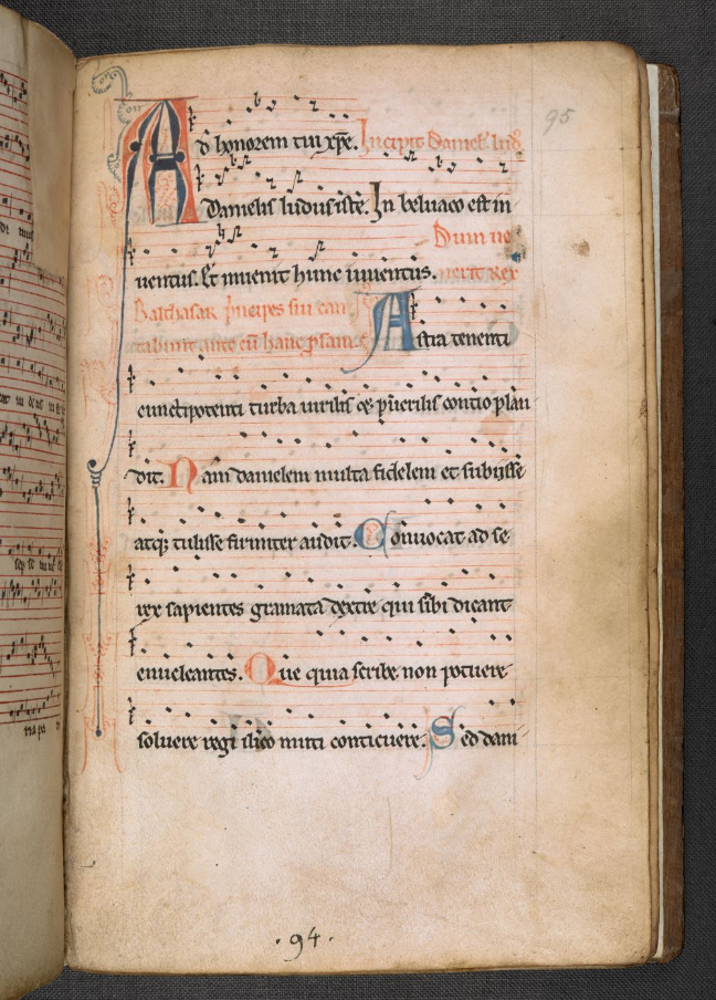 13-century manuscript Egerton MS 2615, folio 95r, text Incipit Danielis ludus